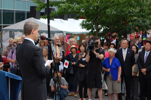 The 100-year anniversary of the Stockholm Olympic Marathon was celebrated in Sollentuna where a Commemorative plaque of Shiso Kanaguri was unveiled.